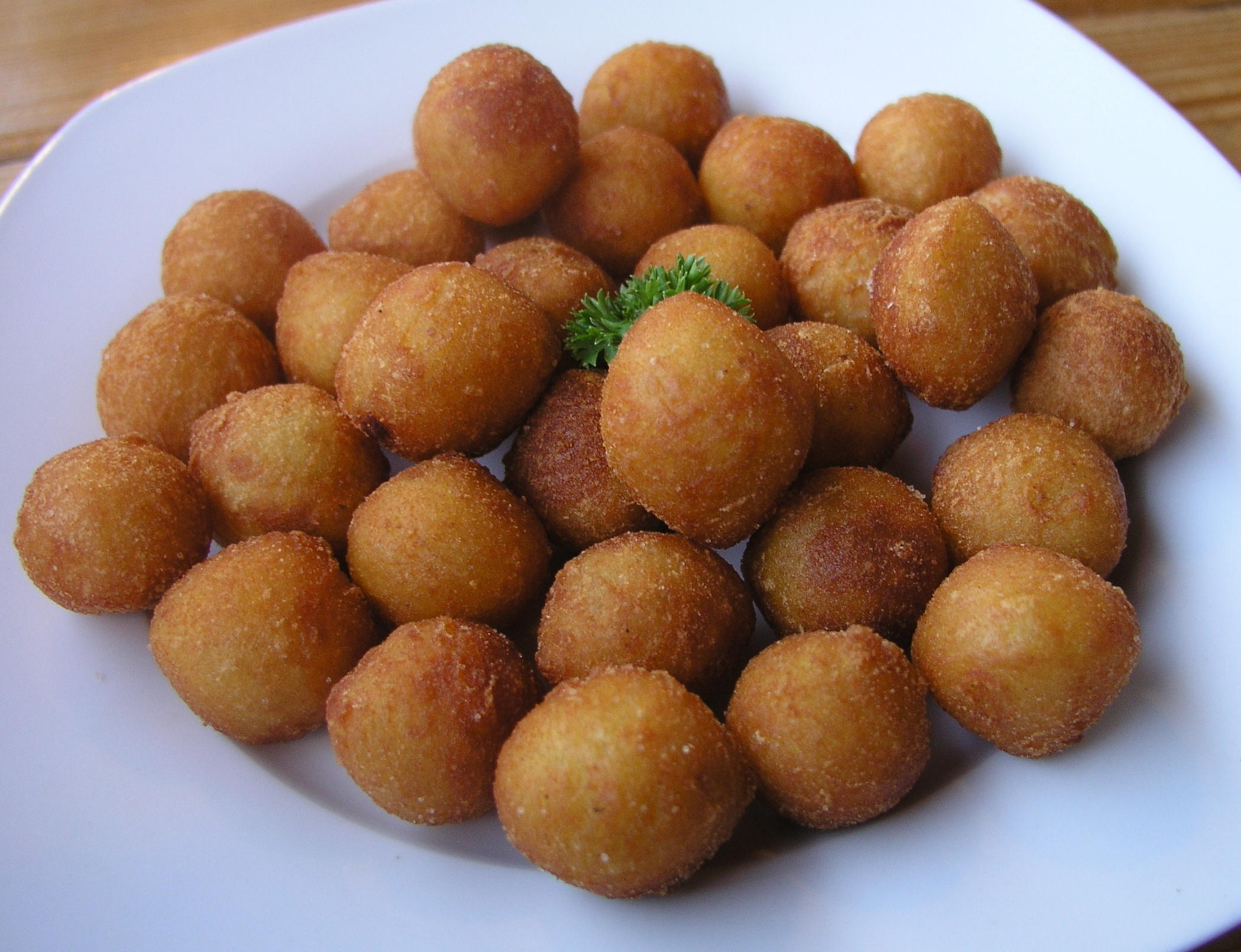 Czech croquettes